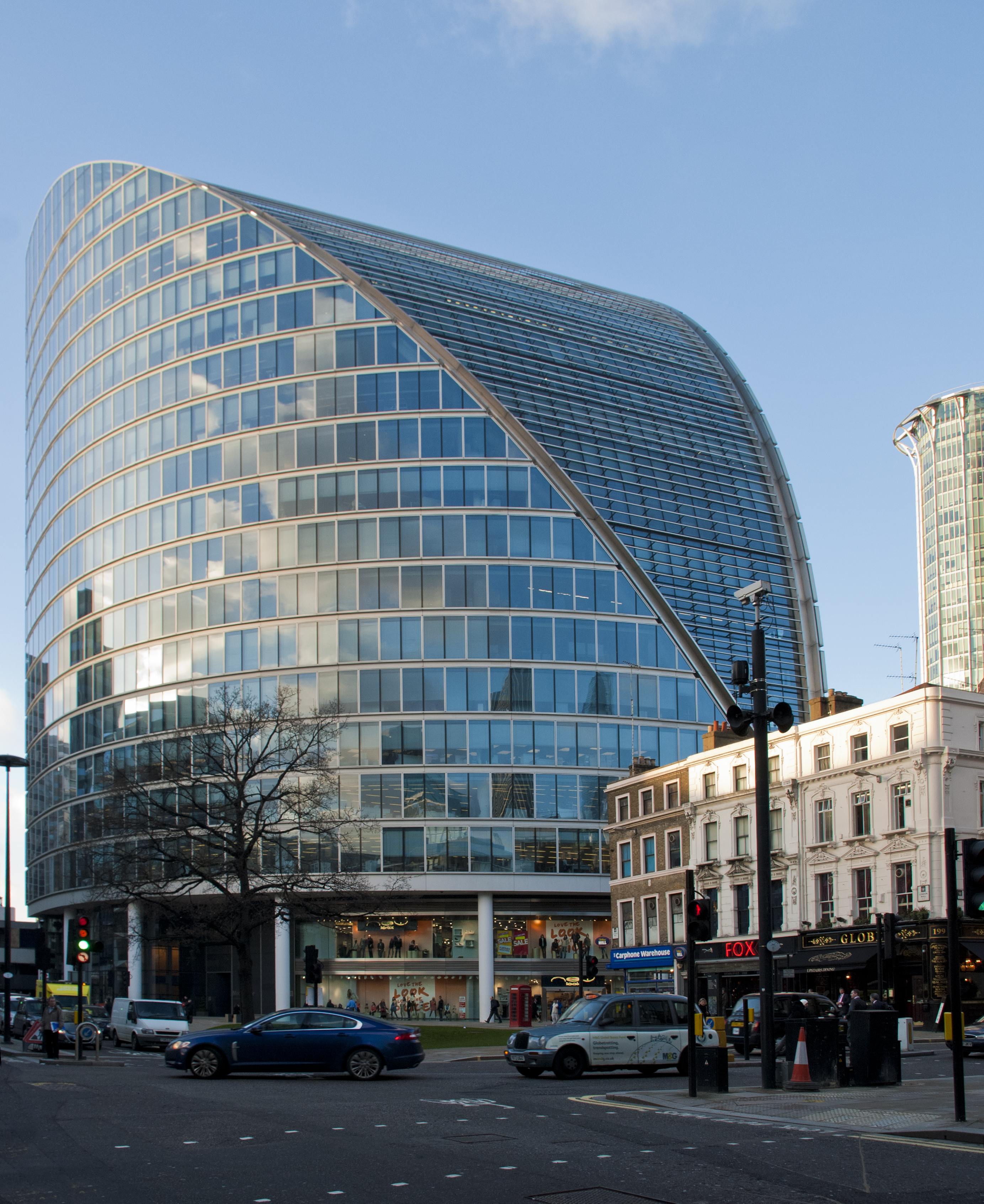 Moorhouse, City of London.